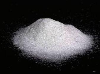 Это - Сорбат Натрия